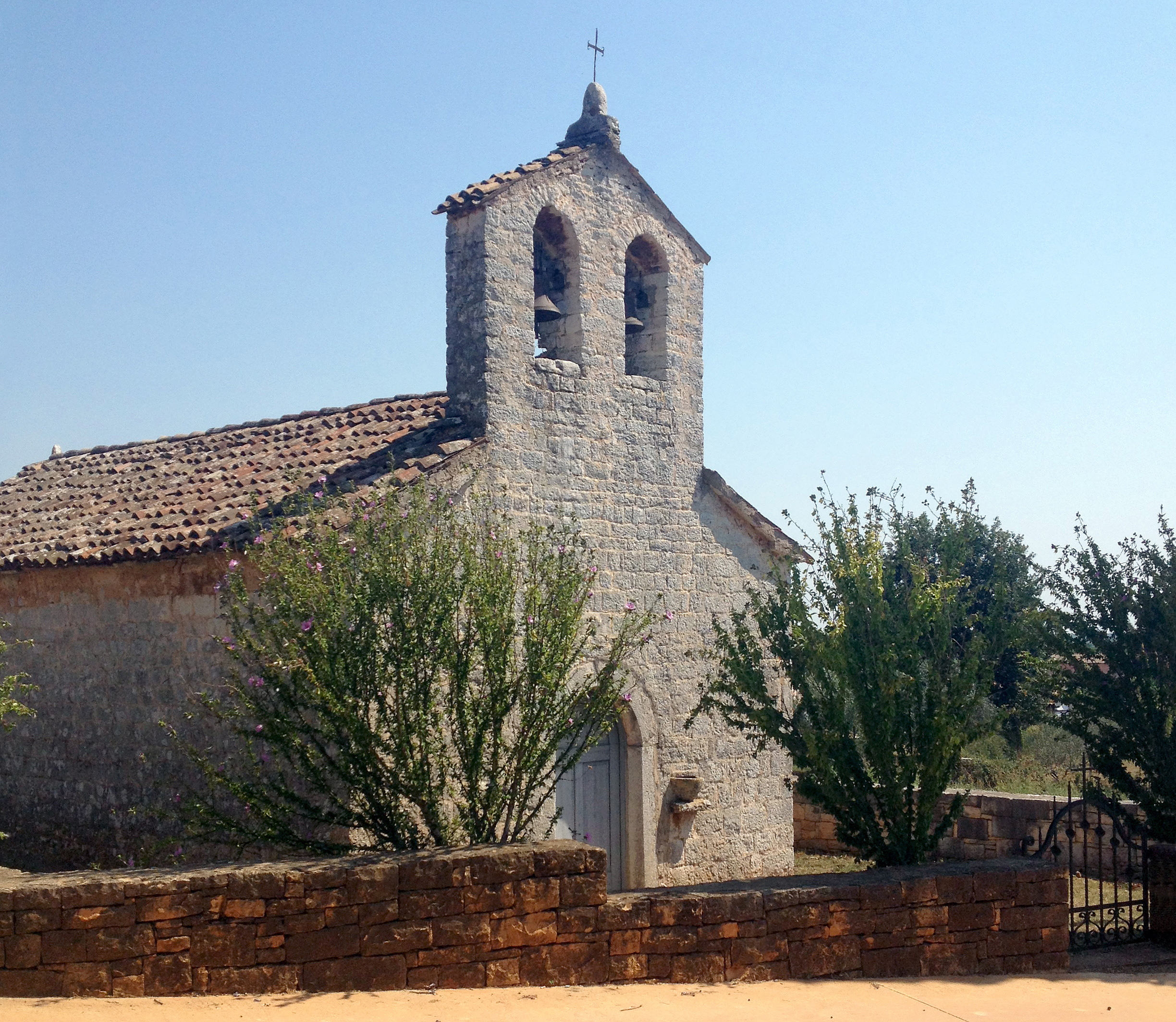 Chapel in Labinci in Istria